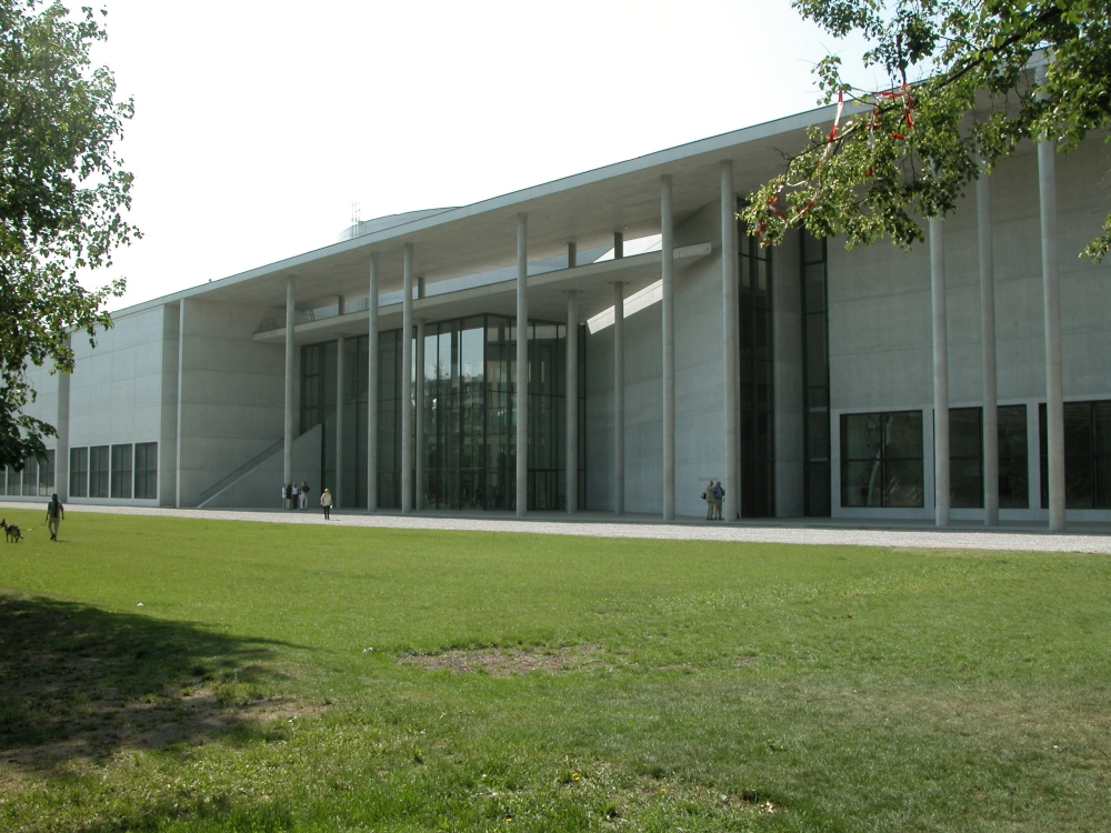 Pinakothek der Moderne, Munich, Germany